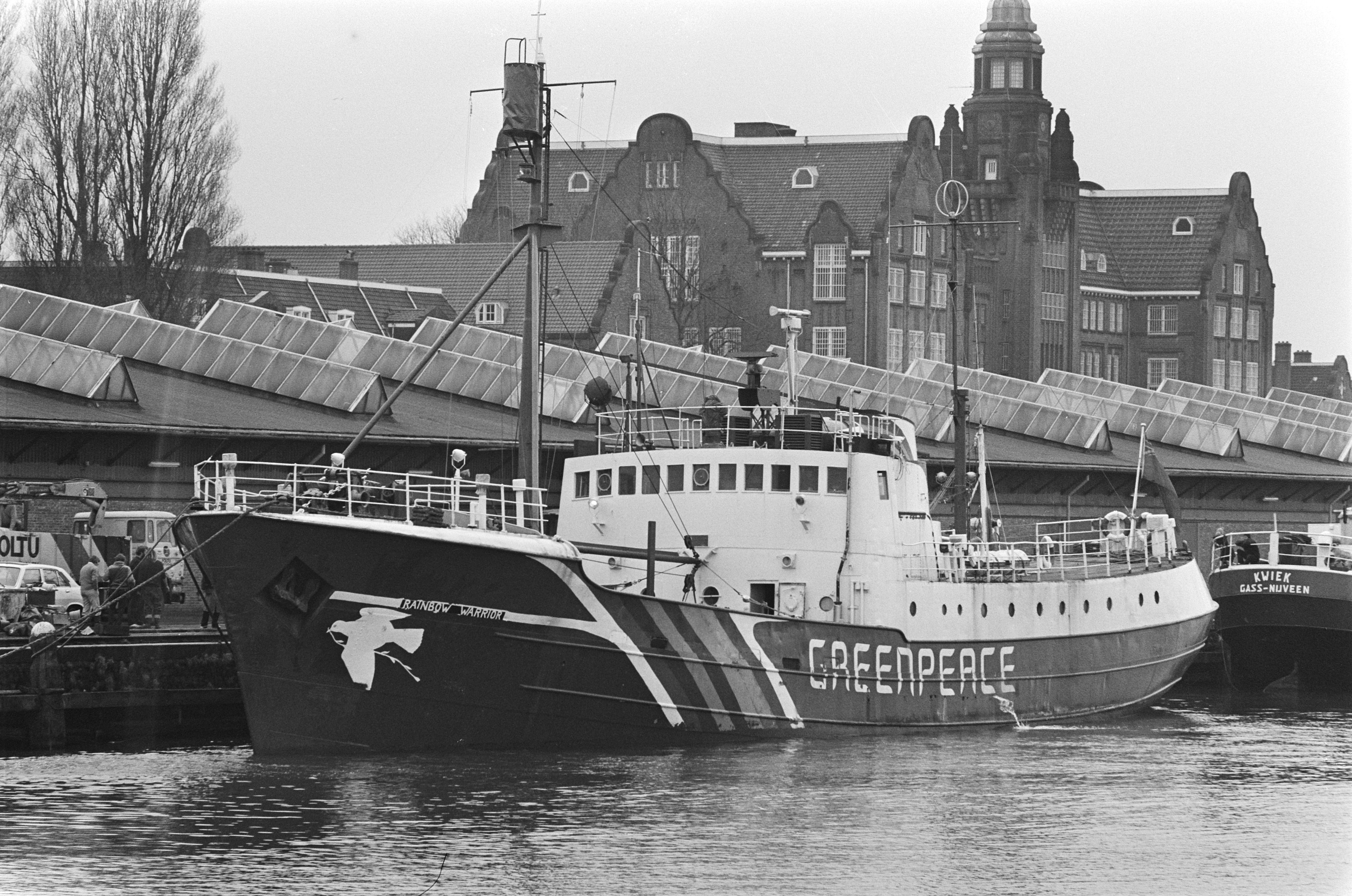 Greenpeace ship Rainbow Warrior in Amsterdam Harbour awaiting departure to Newfoundland, 2 March 1981